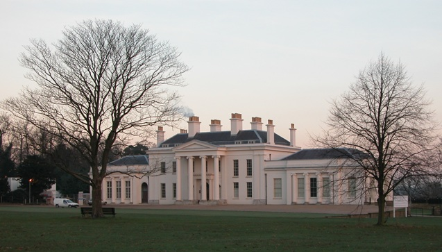 Hylands House, Hylands Park, Chelmsford, Essex, UK.